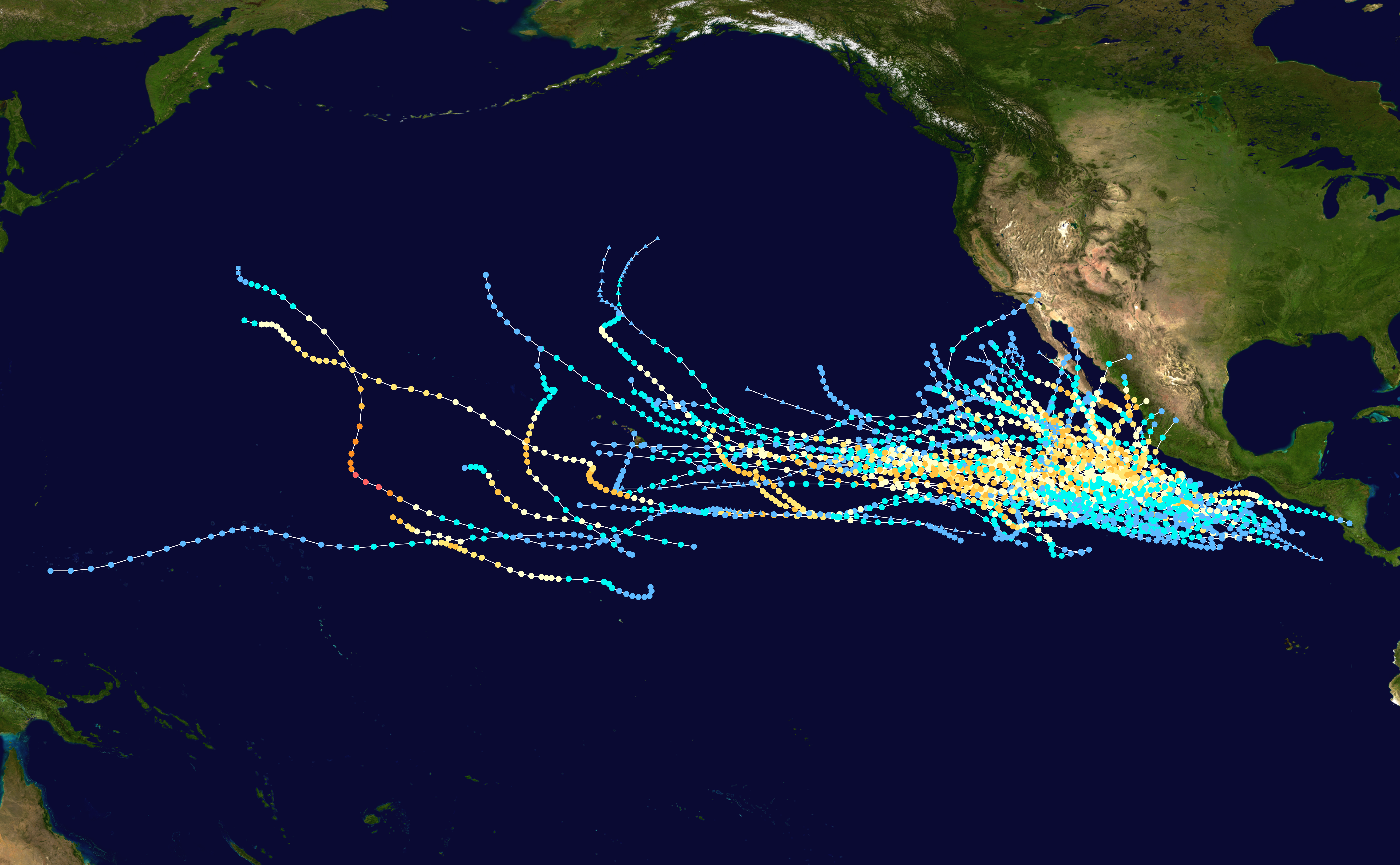 Track map of all Category 3 hurricanes in the Eastern Pacific Basin. The points show the location of the storm at 6-hour intervals. The colour represents the storm's maximum sustained wind speeds as classified in the Saffir-Simpson Hurricane Scale (see below), and the shape of the data points represent the nature of the storm, according to the legend below. Saffir–Simpson scale Tropical depression≤38 mph≤62 km/h Category 3111–129 mph178–208 km/h Tropical storm39–73 mph63–118 km/h Category 4130–156 mph209–251 km/h Category 174–95 mph119–153 km/h Category 5≥157 mph≥252 km/h Category 296–110 mph154–177 km/h Unknown Storm type Tropical cyclone Subtropical cyclone Extratropical cyclone / Remnant low / Tropical disturbance